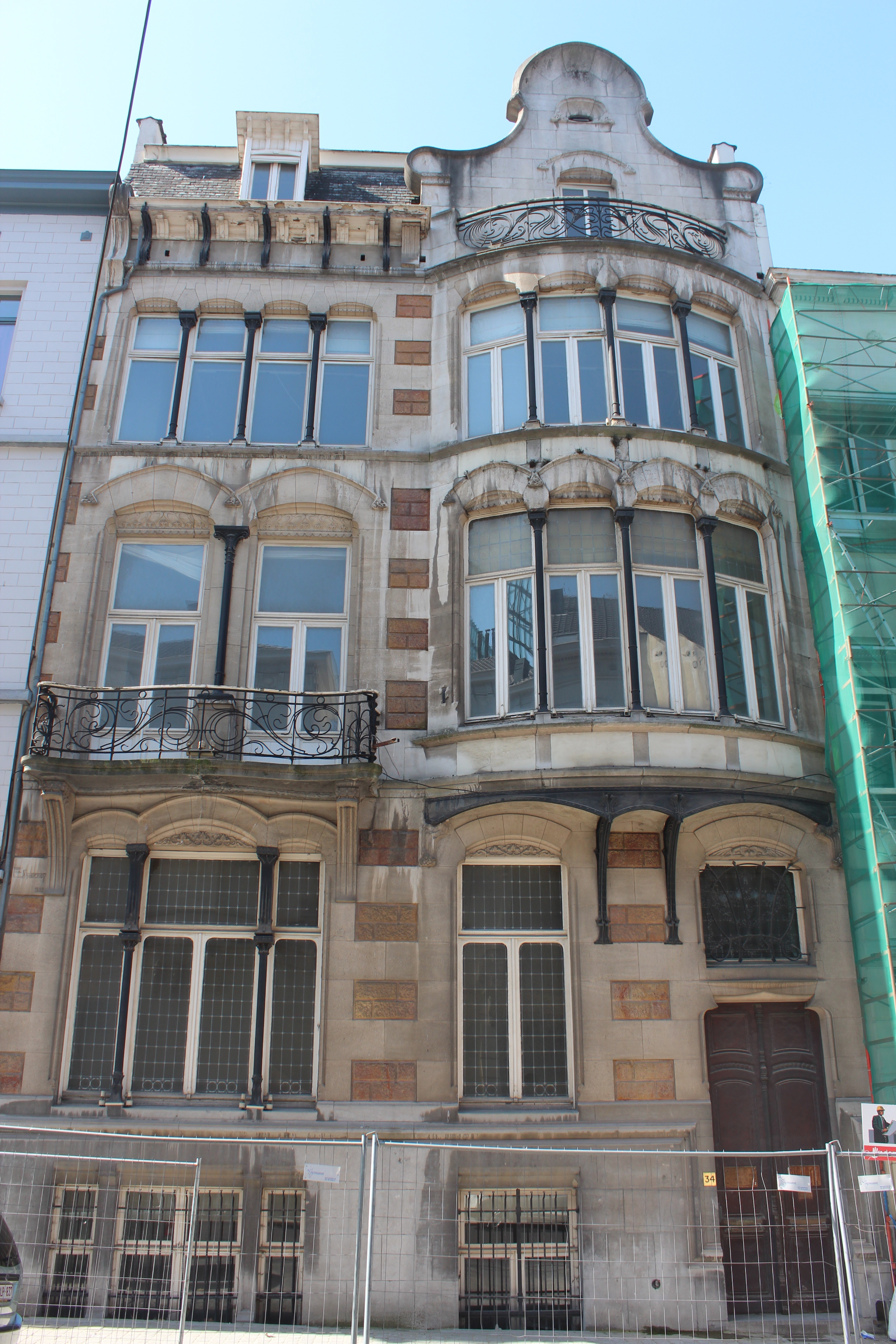 rue du Taciturne 34 Willem De Zwijgerstaat. Art nouveau house.